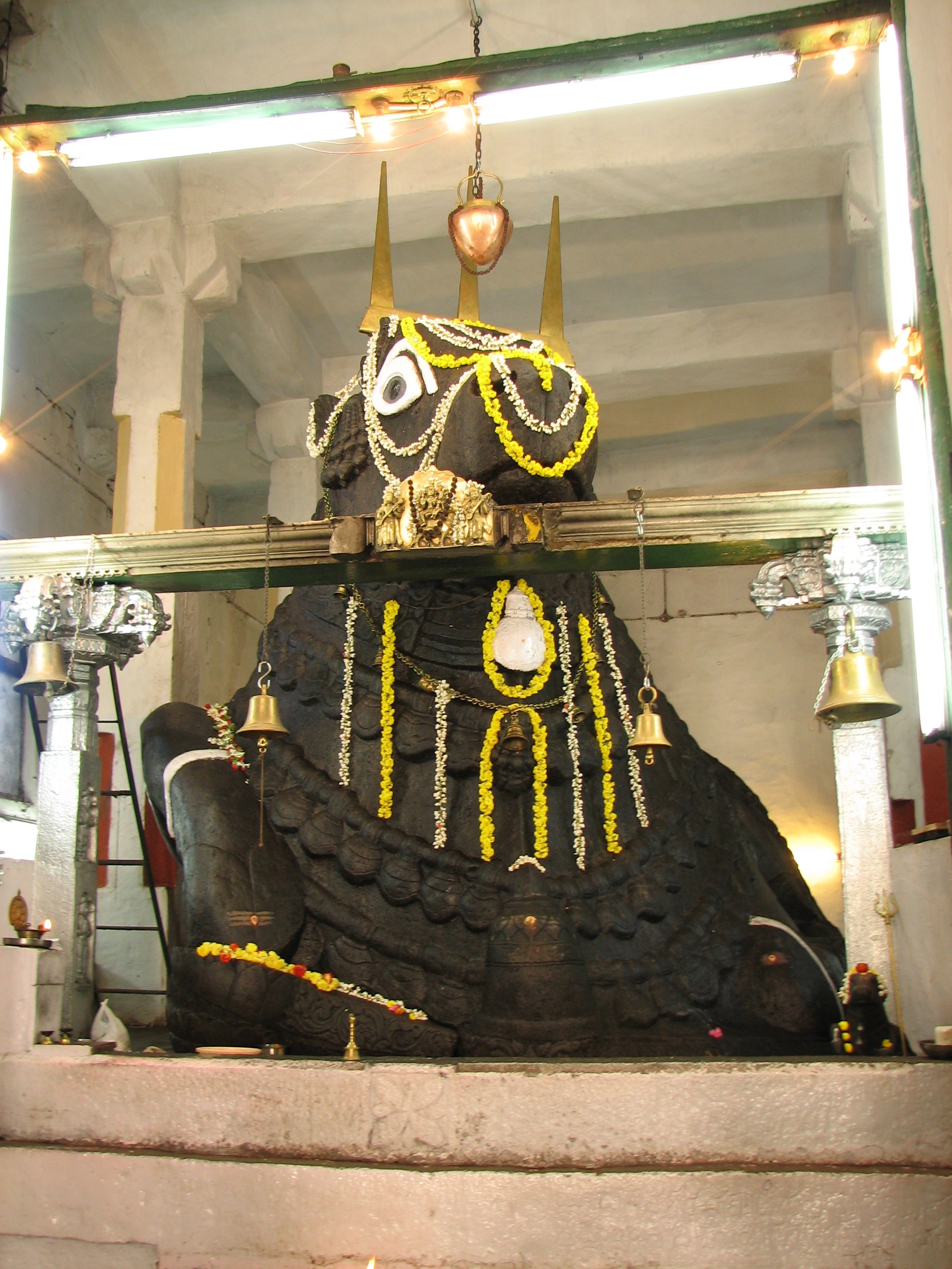 The Bull Temple in Bangalore is dedicated to Lord Shiva's Vahana (vehicle), Nandi. The bull is 6 feet high and made from solid stone and recovered in sesame oil every morning. Nandi Temple